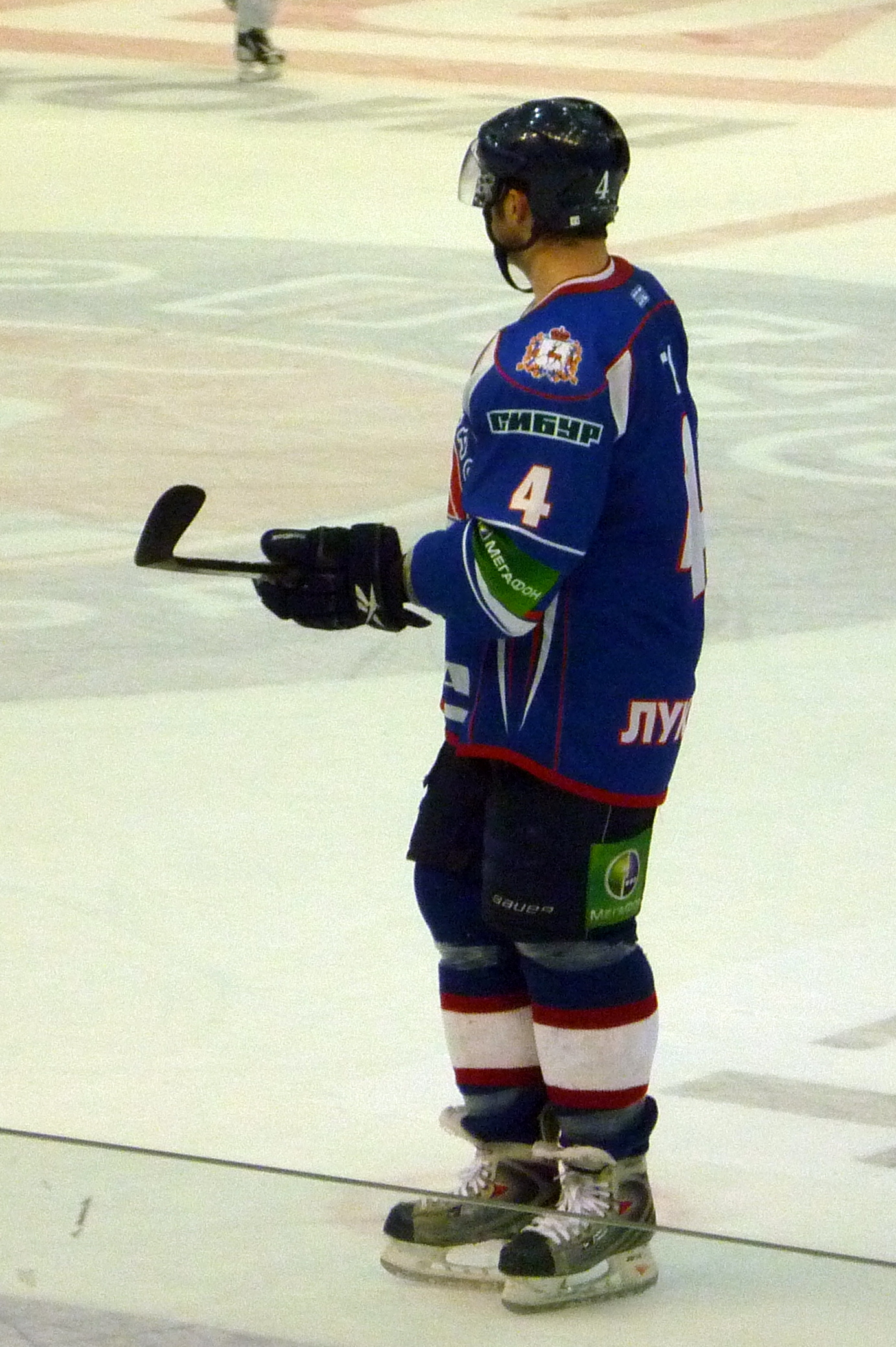 Danny Groulx during the Torpedo NN vs SKA St-Pb game on Dec 12, 2010